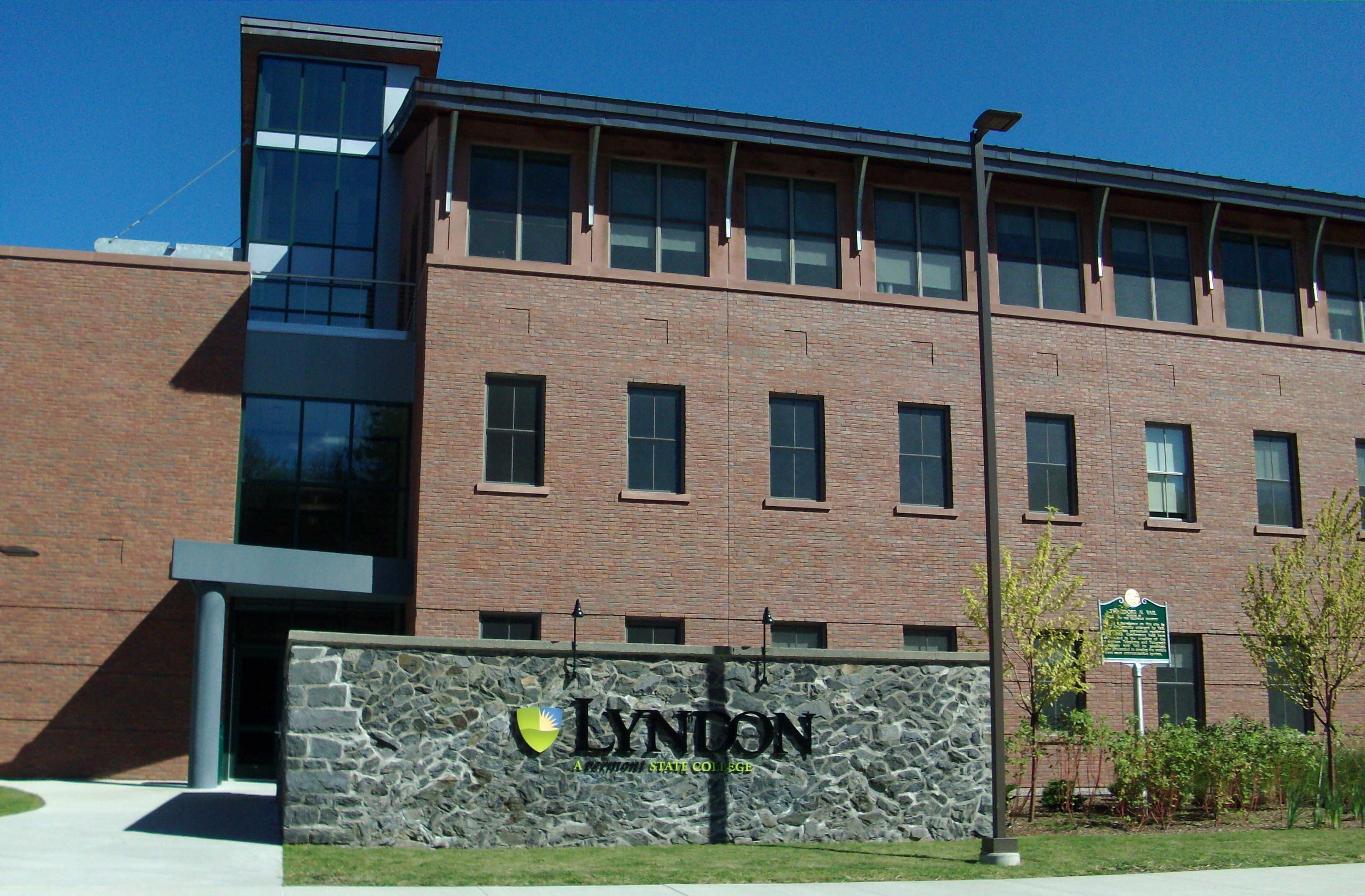 The Academic & Student Activity Center (ASAC) at Lyndon State College in Lyndon Center, Vermont